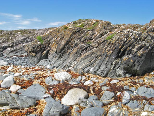 Ordovician metasediments In contrast with the overwhelming majority of granite rocks through this area, the southern tips of Gorumna Island and Lettermullan comprise the country rock into which the granite was intruded some 380 million years ago. The country rock here is Ordovician in age, and the rocks are bedded volcanic and volcaniclastic material. The layered, grey and green rocks make a marked contrast with the smooth, pinkish, homogeneous granite outcrops. Boulders of both rock types make up this beach, which is heavily littered with dried kelps at the high-tide mark.